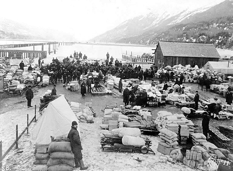 Piles of freight and supplies on the waterfront, Dyea, Alaska, ca. 1898, during the Klondike Gold Rush. Caption on image: "Freight yard Dyea Alaska"